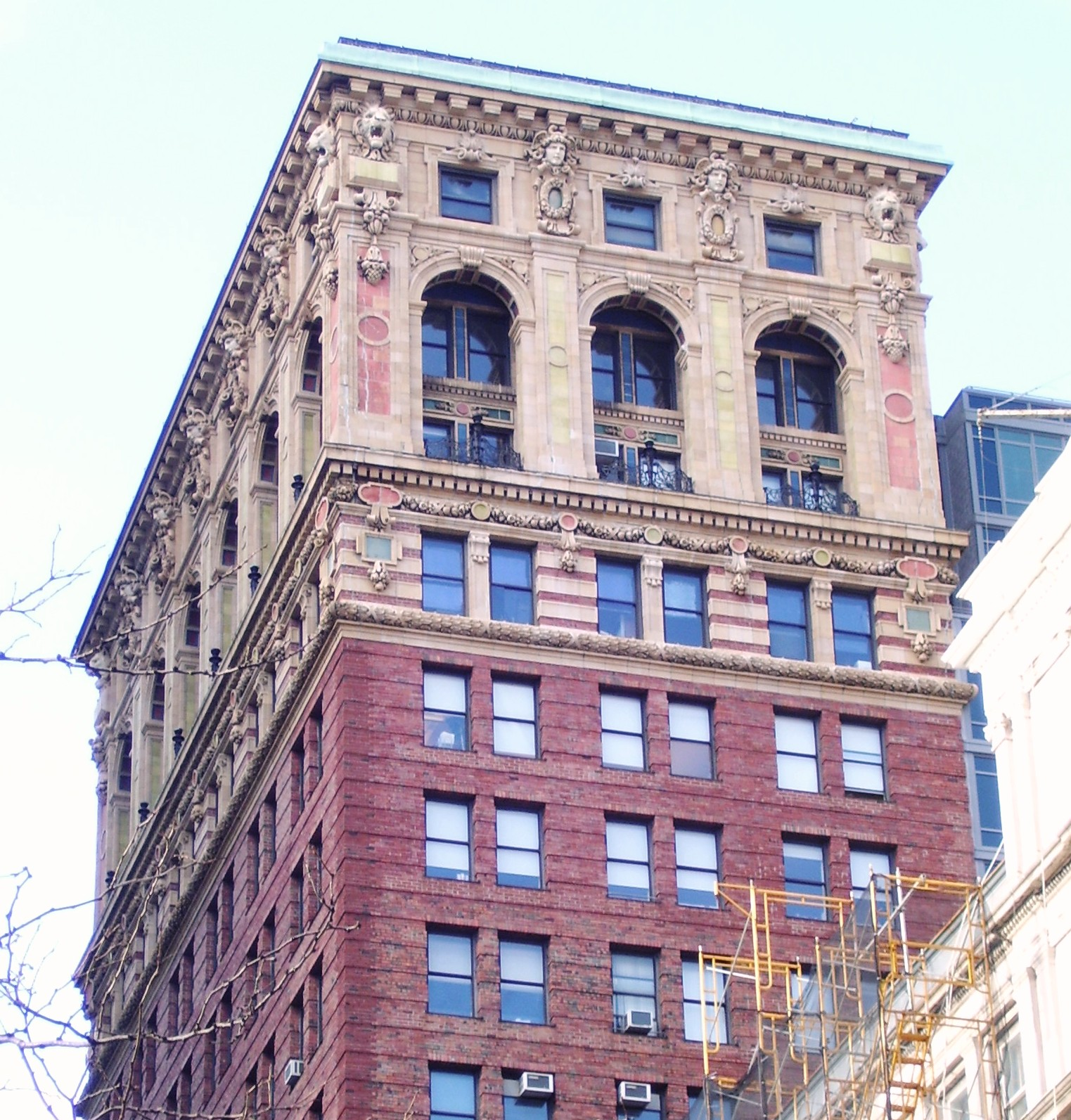 The Broadway-Chambers Building at 277 Broadway on the corner of Chambers Street in the Tribeca neighborhood of Manhattan, New York City was built in 1899-1900 and was architect Cass Gilbert's first design in New York City. The building is made in the Beaux-Arts style, and was designated a NYC landmark in 1992. (Sources: Guide to NYC Landmarks (4th ed.) and "NYCLPC Designation Report")